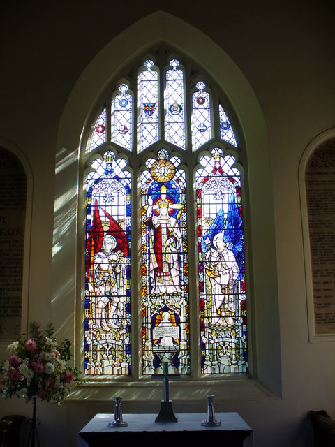 East Window, St Peter and St Paul Ewhurst C of E parish church which dates back to the Normans. The Frecheville family commissioned A K Nicholson to design and manufacture a stain glass memorial window for William Ralph Frecheville who was executed after capture 09/01/1920 aged 24, Rostov-on-Don, Russia, whilst serving as part of the British Force in Russia. It now features as the East window behind the alter in the church of St Peter and St Paul's in Ewhurst. It promotes the memory of a young man who, at the age of 24 and after 6 years of conflict, gave his life helping another country in its struggle for freedom after his own country had completed its own tragic four year struggle. Additional information on William Ralph Frecheville at